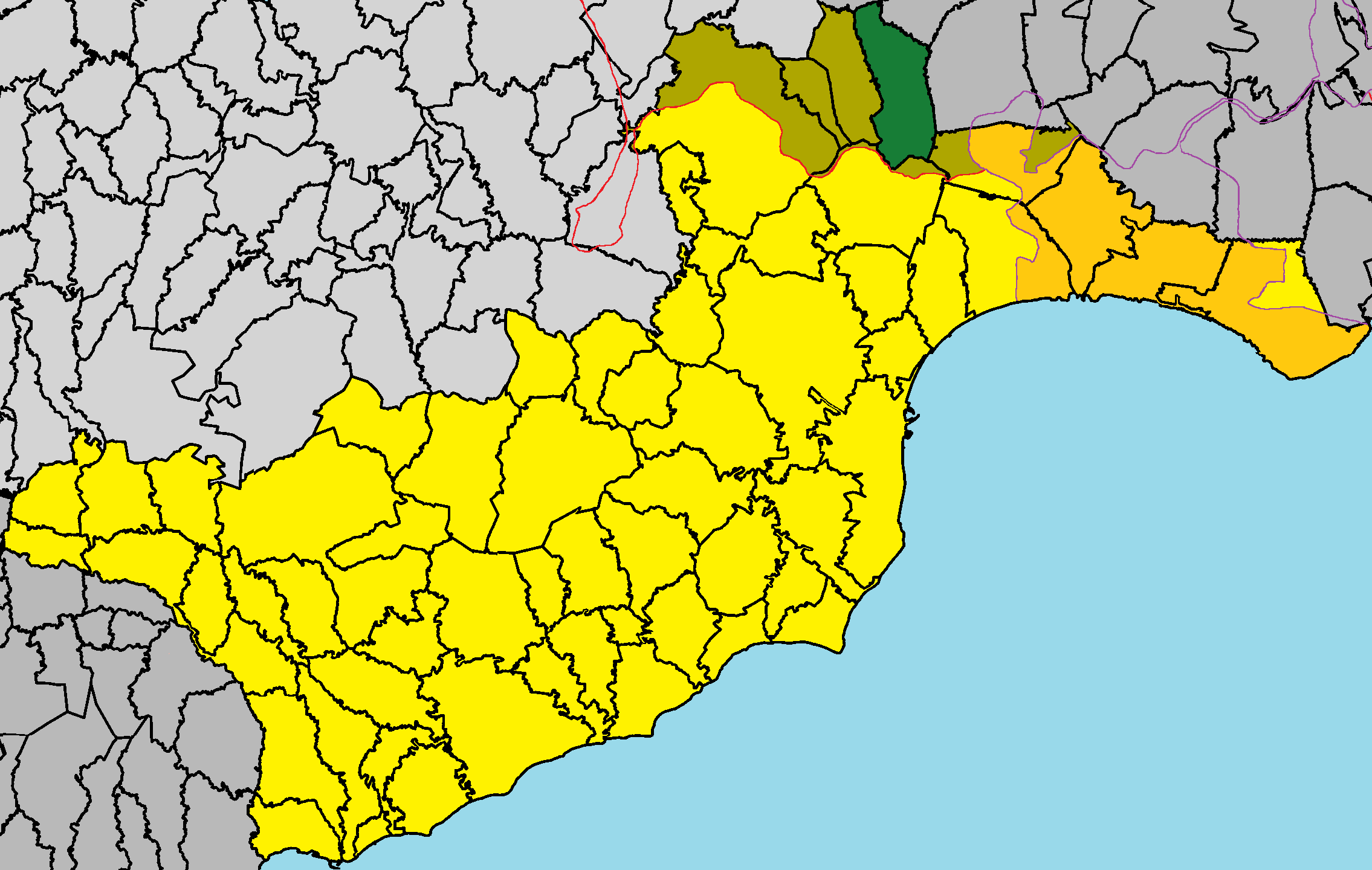 Arsos in Larnaca District (de jure).